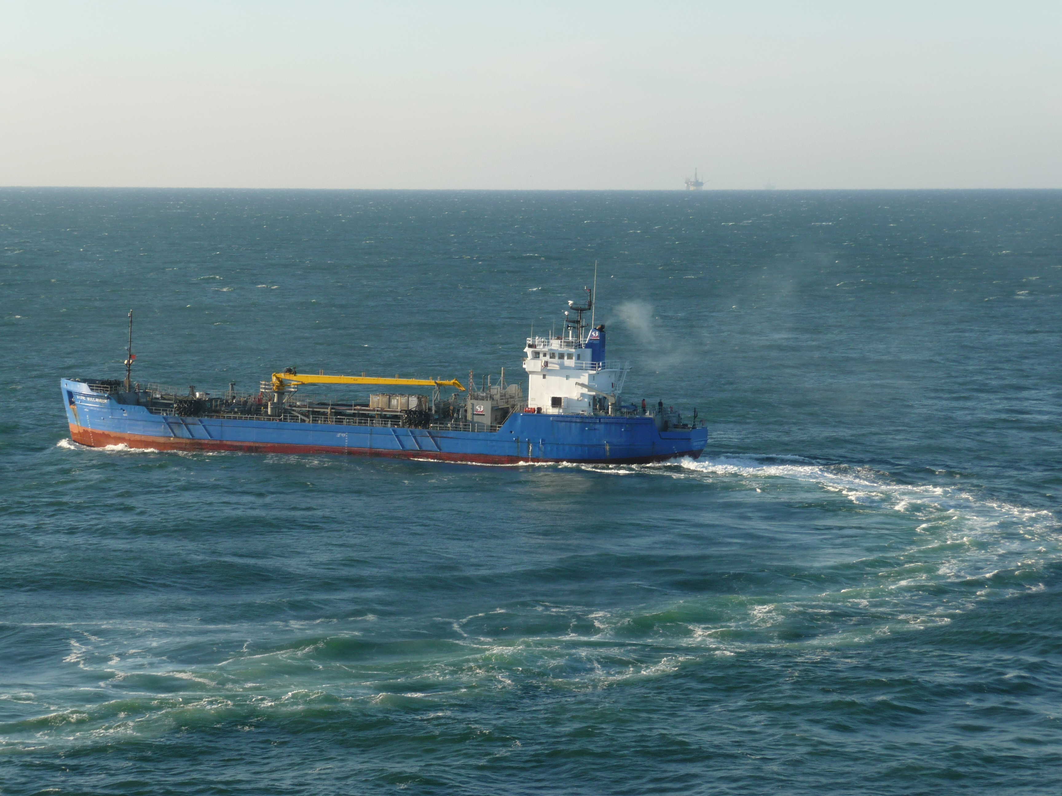 Stone Buccaneer departing after delivering fuel to the DCV Balder Balder IMO Number: 8414518 MMSI Number: 368670000 Callsign: WCX8802 Length: 90 m Beam: 14 m